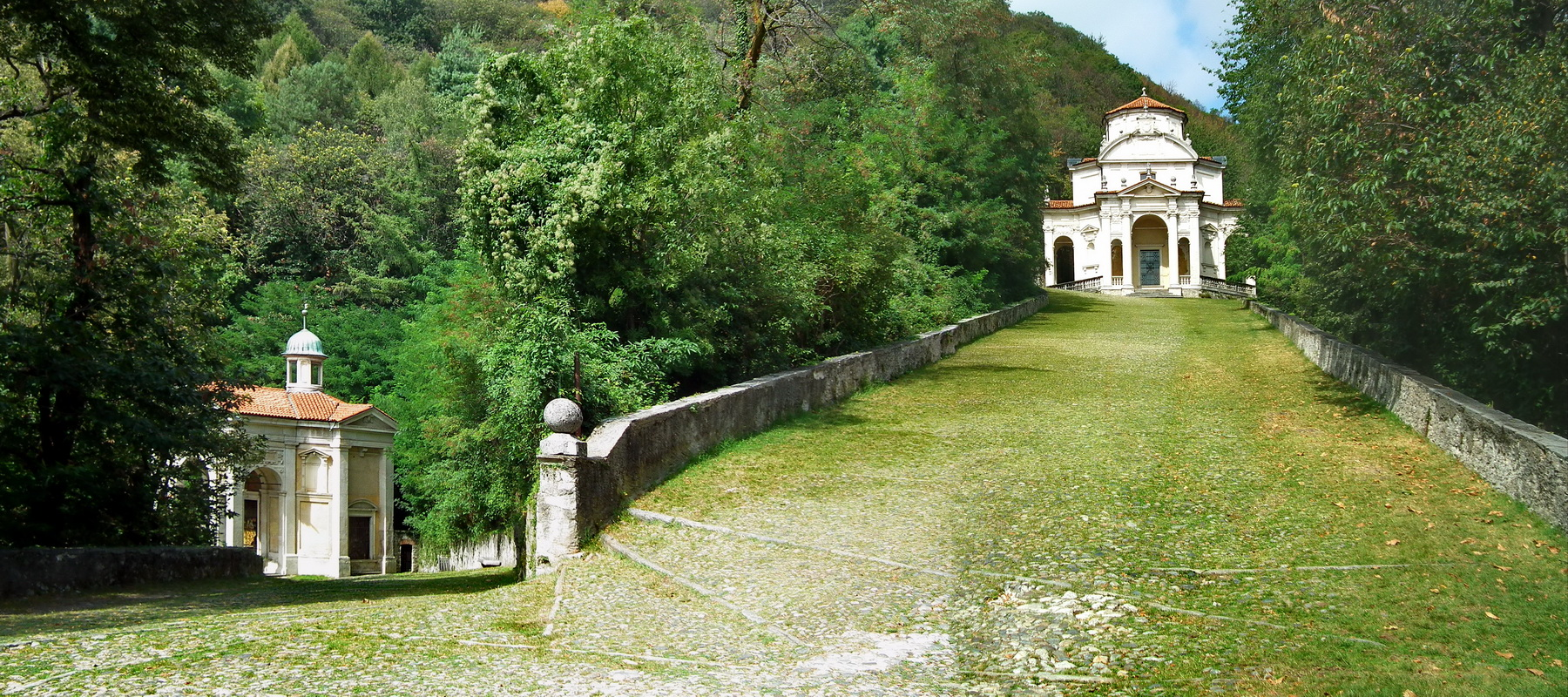 Chapel 5: Christ Among Doctors (Disputa di Gesù col dottori) Sacro Monte di Varese Native nameSacro Monte di VareseLocationVarese, Lombardy, ItalyCoordinates45° 51′ 37″ N, 8° 47′ 36″ E Established1604-1623 (Constructed)Web page control : Q1224490 VIAF: 242334001 GND: 7641777-3 BNF: 11980003j